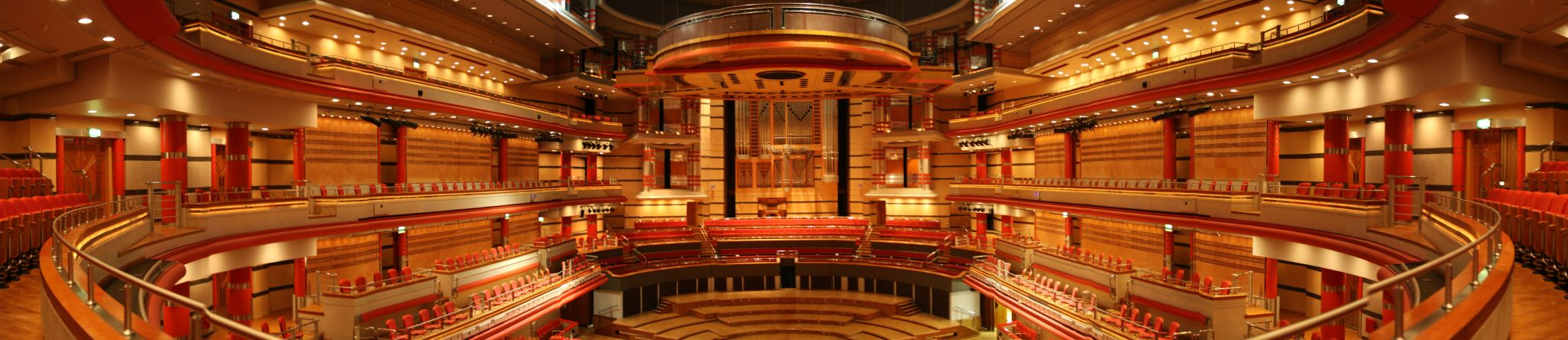 Birmingham Symphony Hall, England. Taken from a Level 5 circle seat of the Symphony Hall.